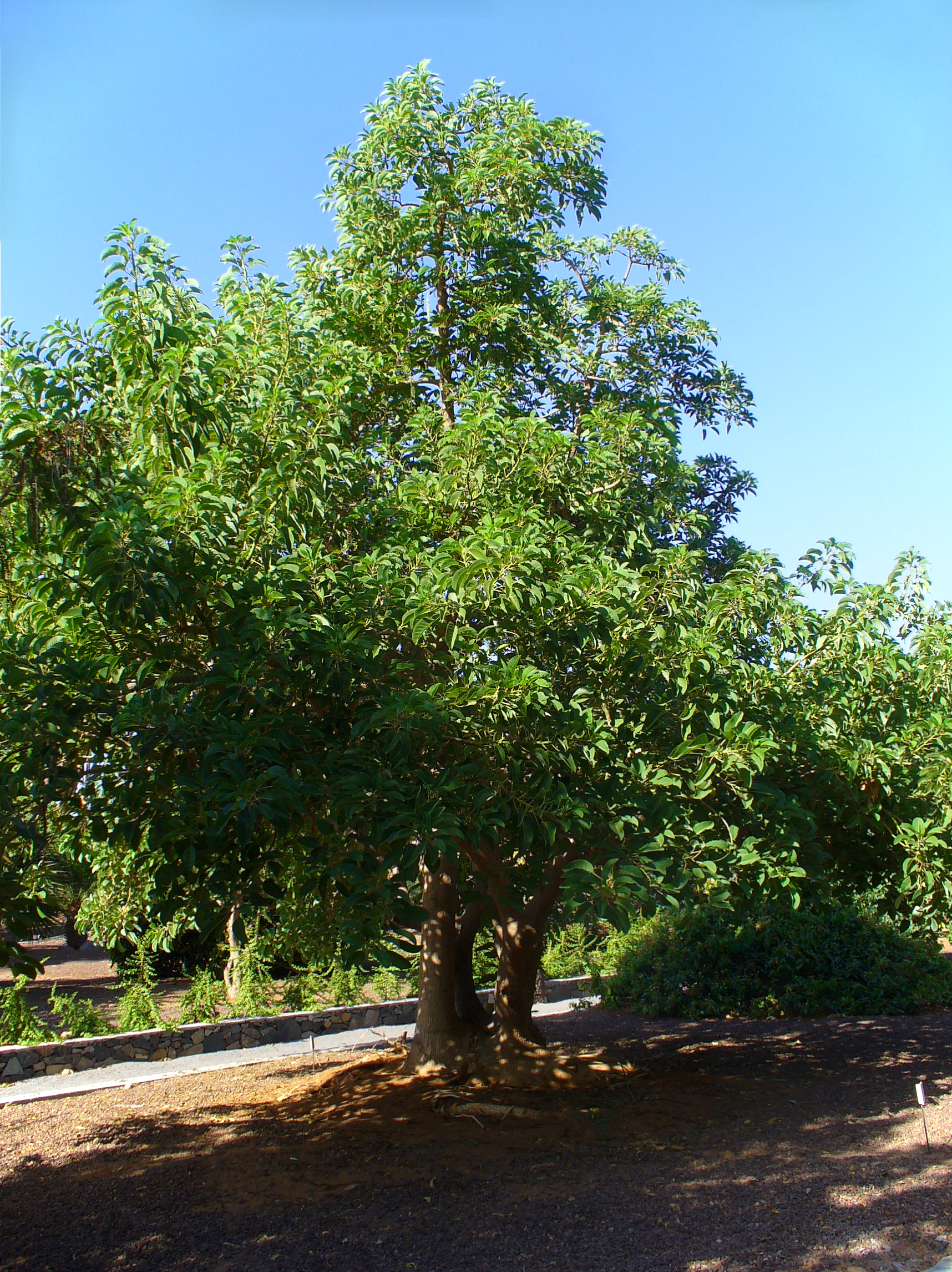 Ombú; Habitus; Botanical Garden Maspalomas, Gran Canaria, Canary Islands, Spain